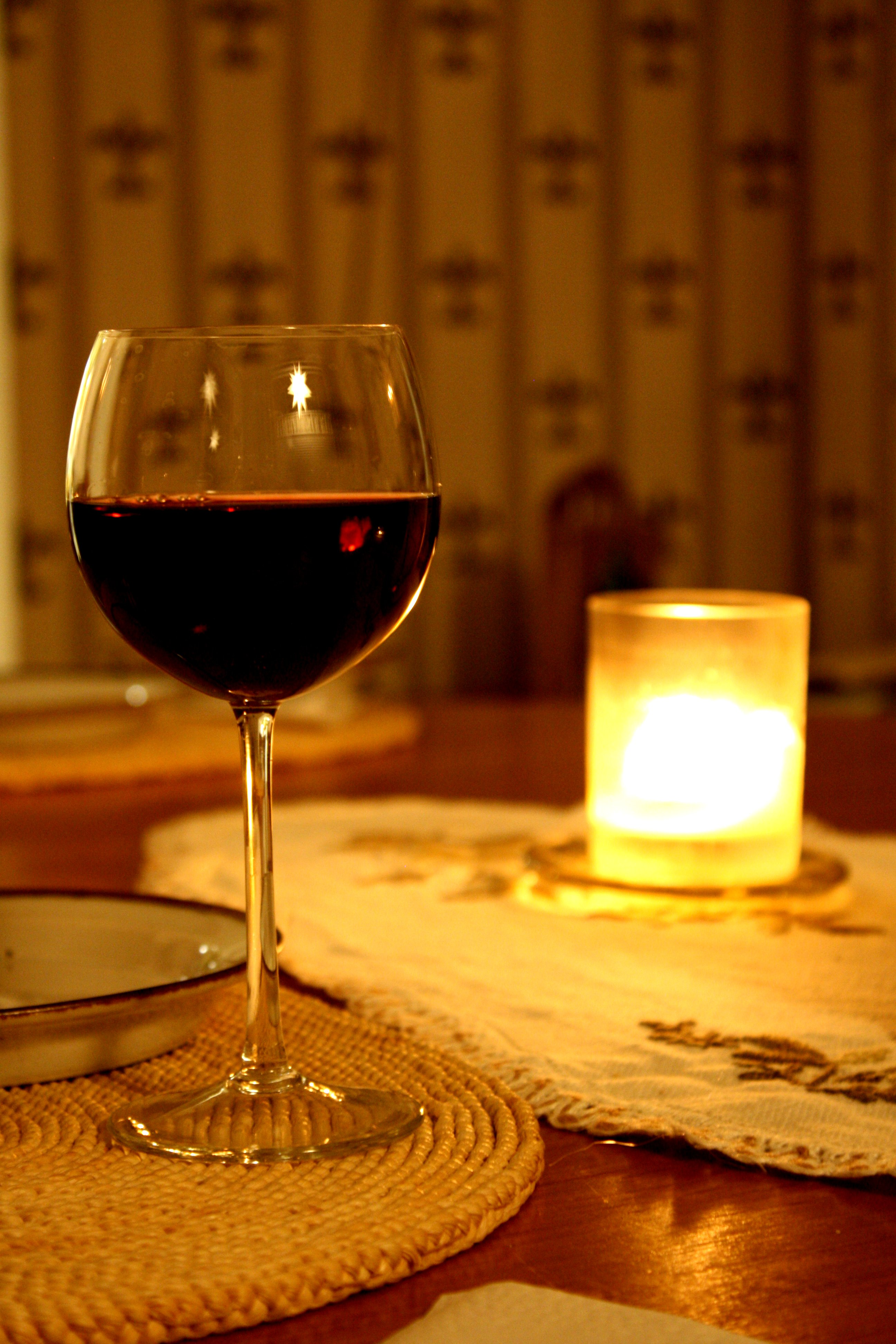 A beautiful picture of a glass of red wine alongside with a candle lamp.